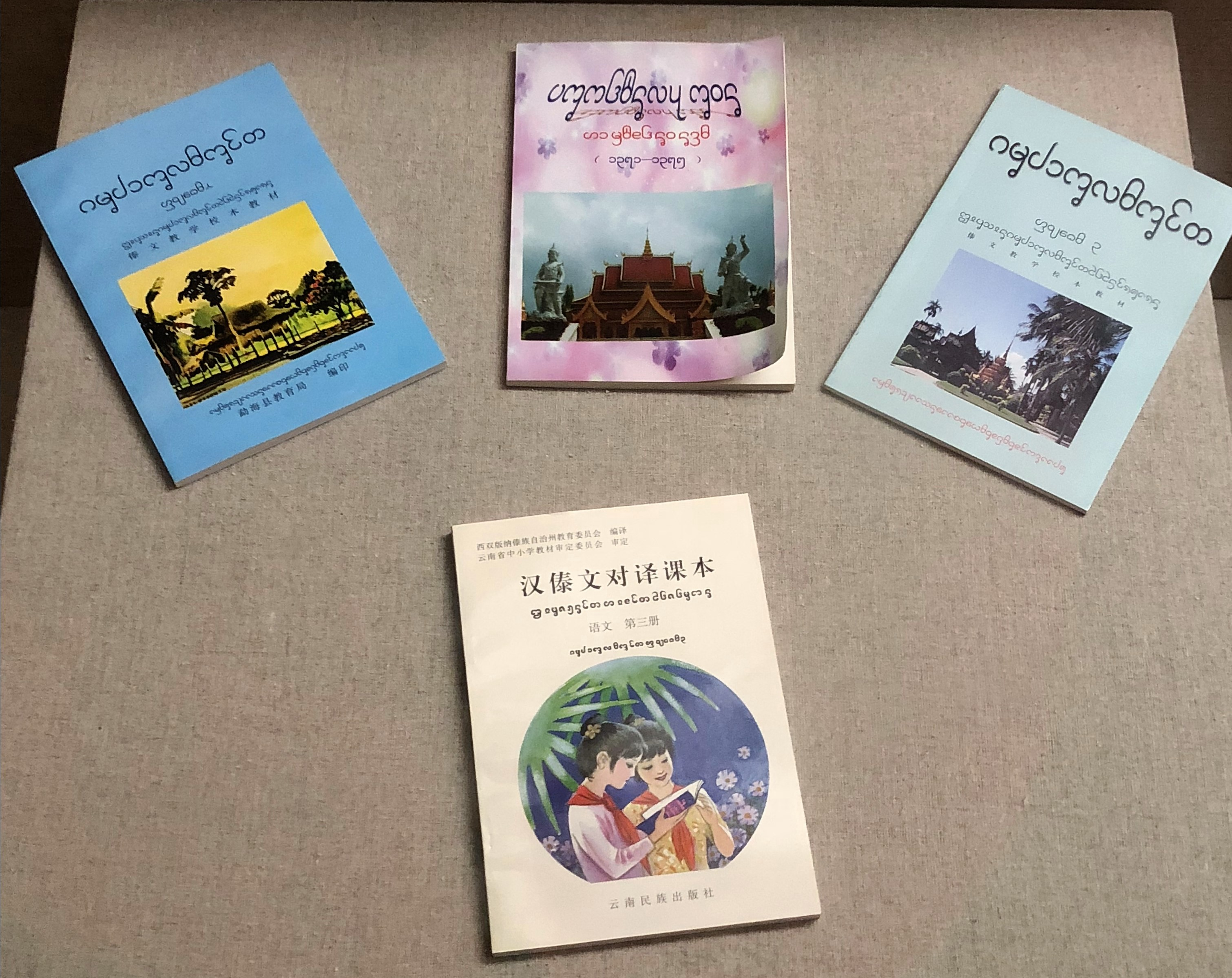 Dai language texbooks